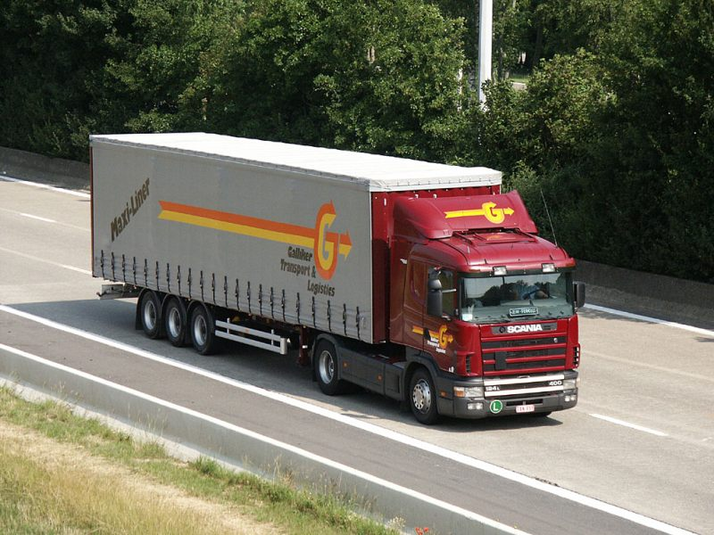 This picture can be found in gallery Scania AB